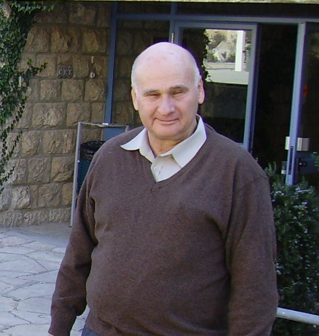 Prof. Menachem Magidor in front of the Einstein Institute of Mathematics, The Hebrew University of Jerusalem, Jerusalem